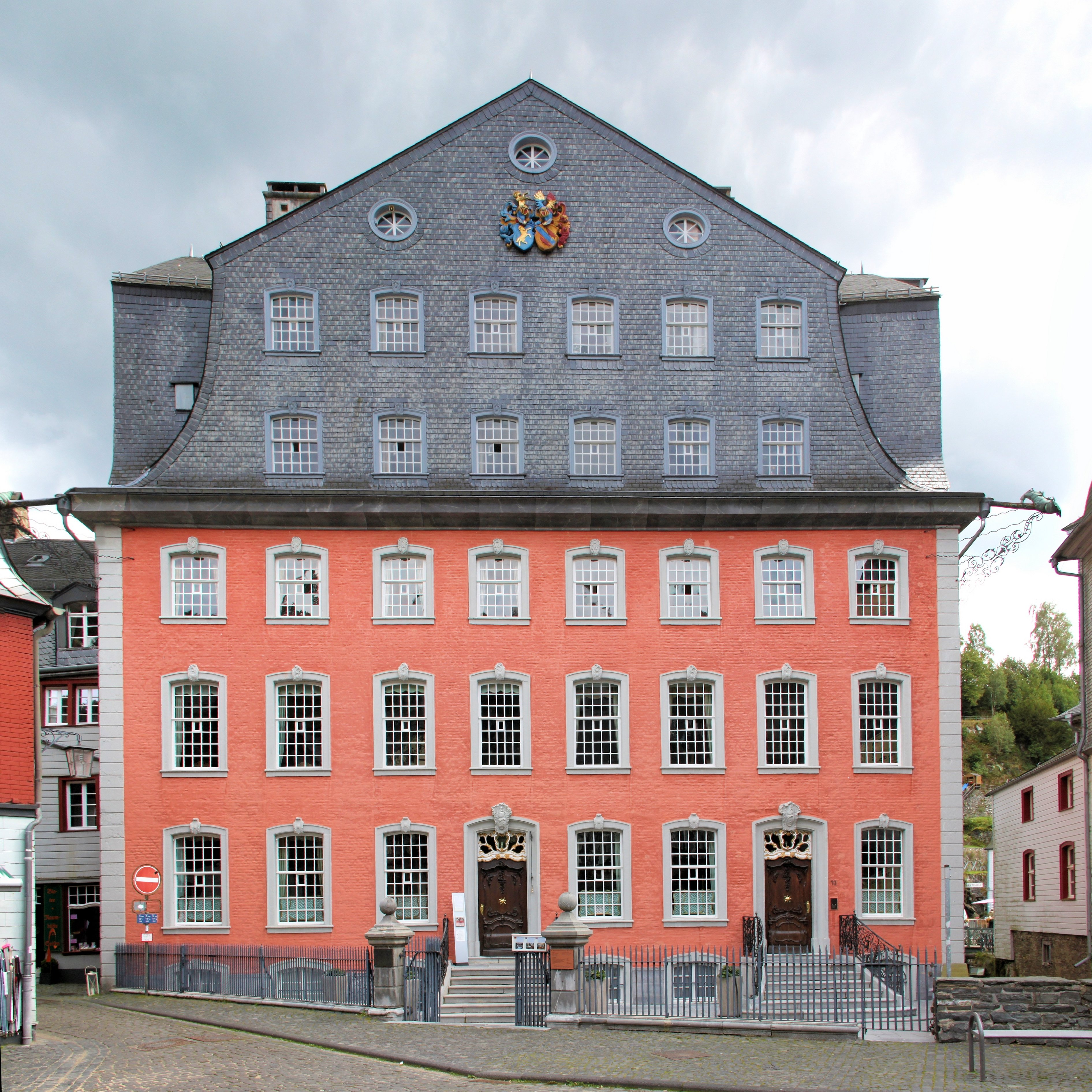 Monschau: Red House.